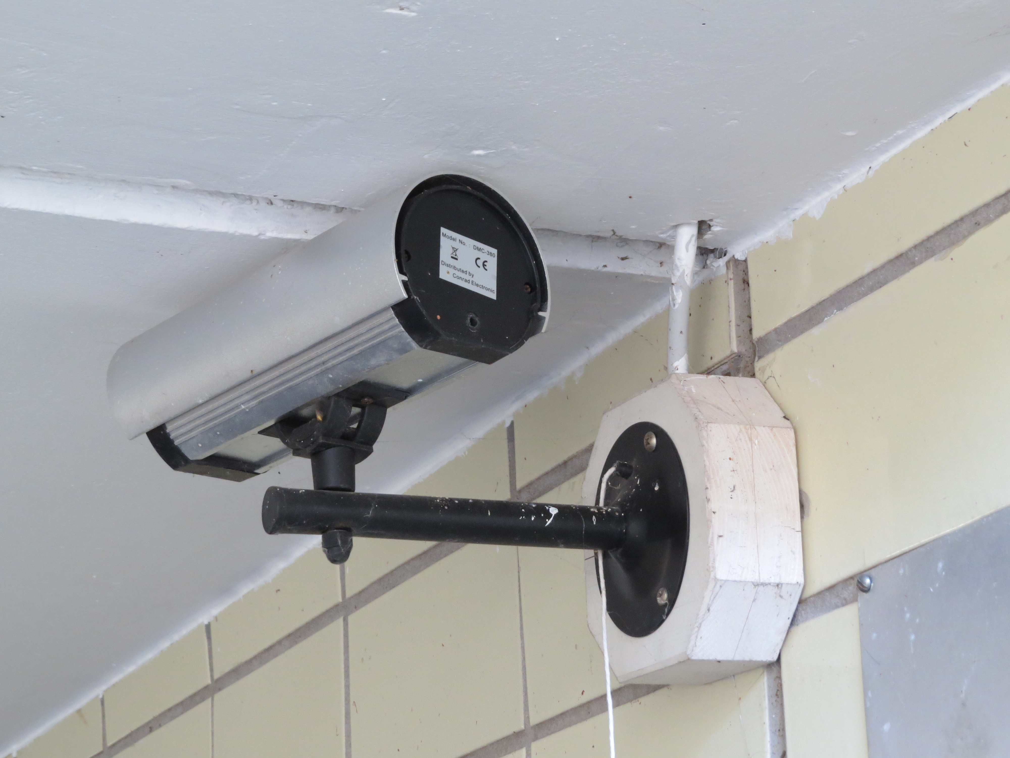 Dummy security camera DMC-380 from Conrad Electronic at train station underpass at Bahnhof Langenlebarn